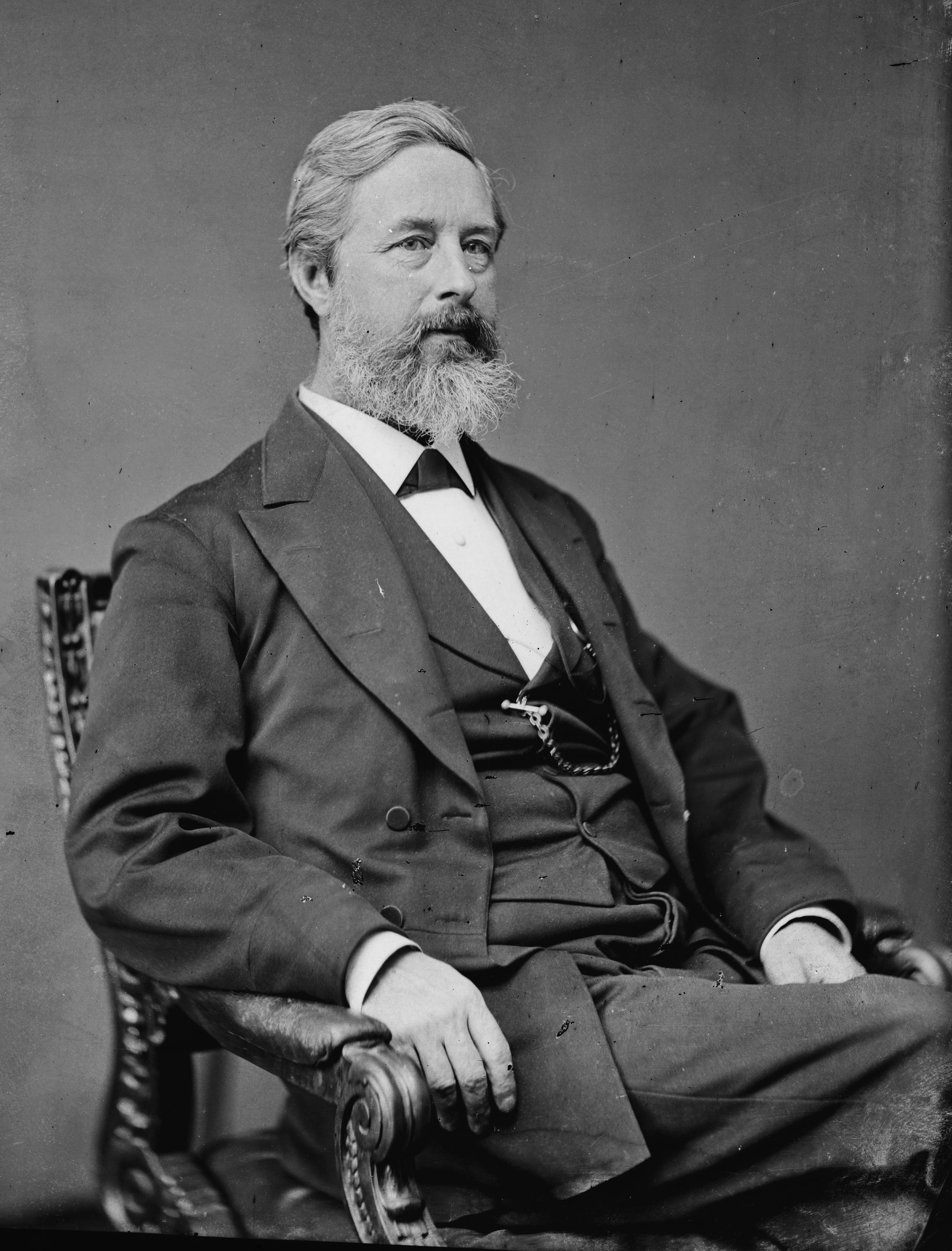 Aaron Augustus Sargent. Library of Congress description: "Senator A.A. Sargent of California"